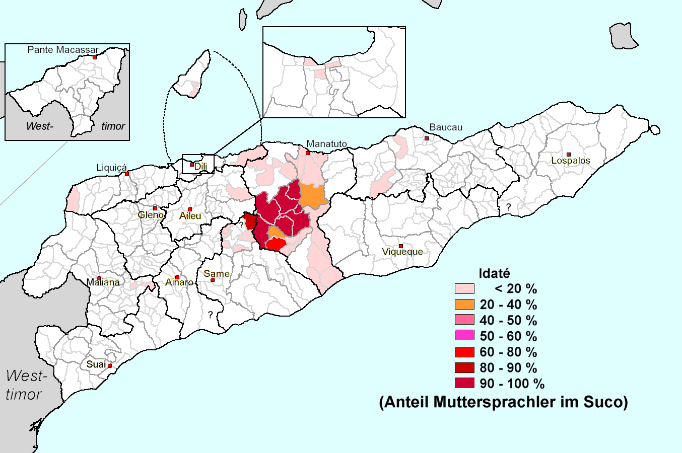 Percentage of people using Idaté as mother tongue in sucos of East Timor (Timor-Leste), according census 2010